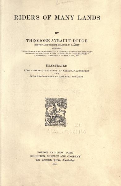 Book cover of the work of Theodore Ayrault Dodge: "Riders of many lands", 1901 ed.